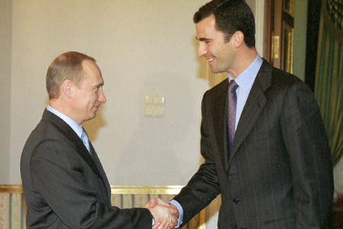 THE KREMLIN, MOSCOW. President Vladimir Putin meets Crown Prince Felipe of Spain.